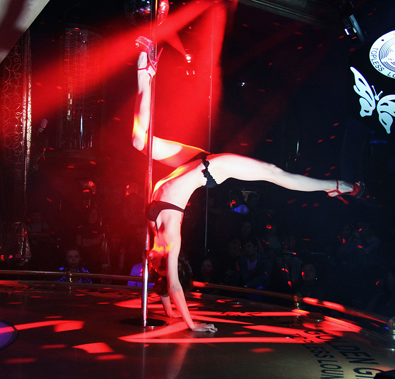 Poledance